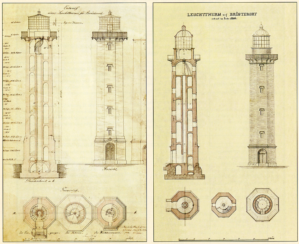 Projects of the Brüsterort lighthouse 1841 and 1846 from GStA PK Berlin. Secondary source: Antoni F. Komorowski, Iwona Pietkiewicz, Adam Szulczewski. Najstarsze latarnie morskie Zatoki. Gdańskiej [The oldest Gulf of Gdansk Lighthouses]. Gdańsk: Fundacja Promocji Przemysłu Okrętowego i Gospodarki Morskiej, 2009. — ISBN: 978-83-60584-16-3. — Wydanie I [1st Edition].